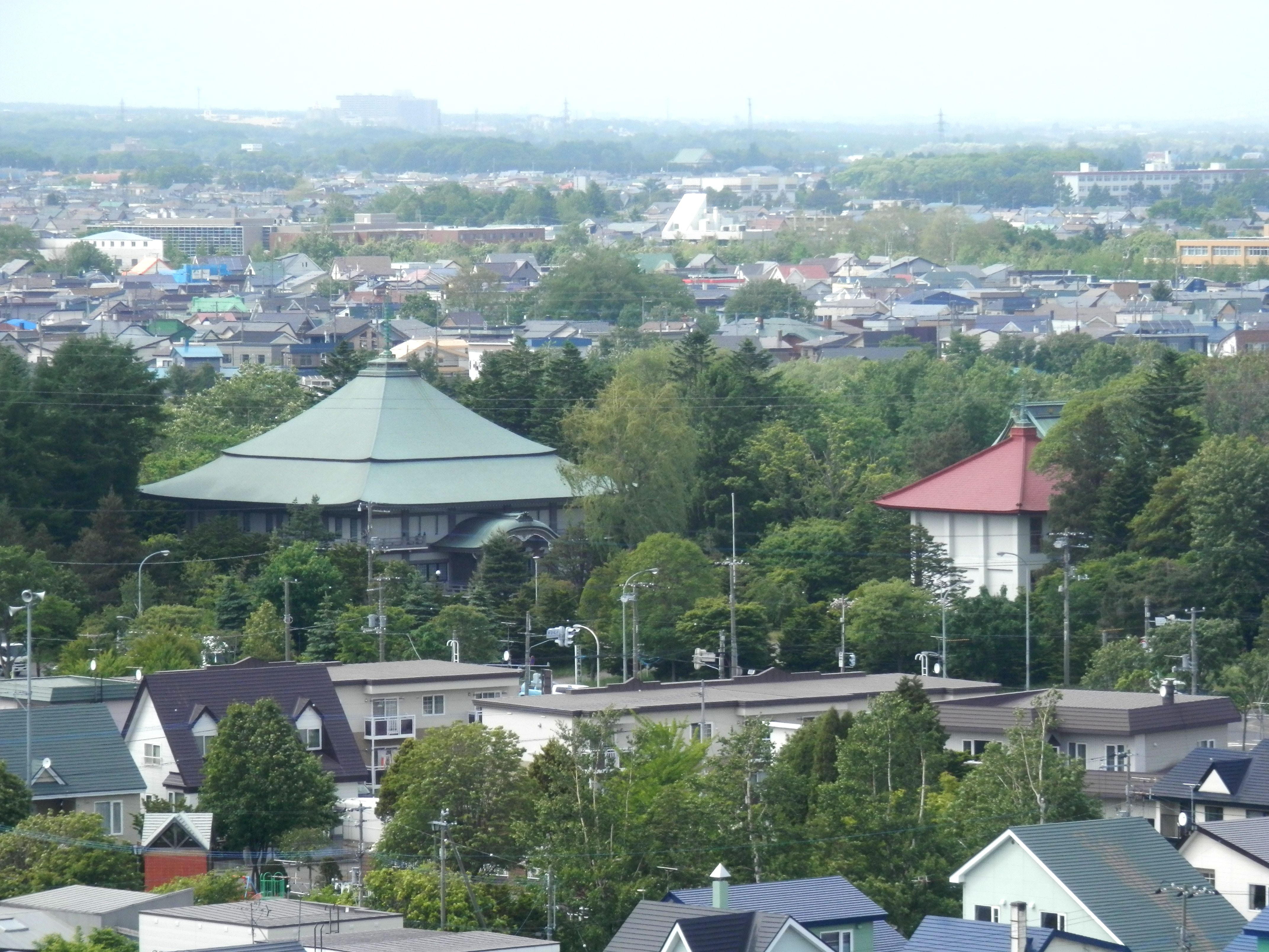 Ten'yuji Buddhist Temple in Eniwa, Hokkaido